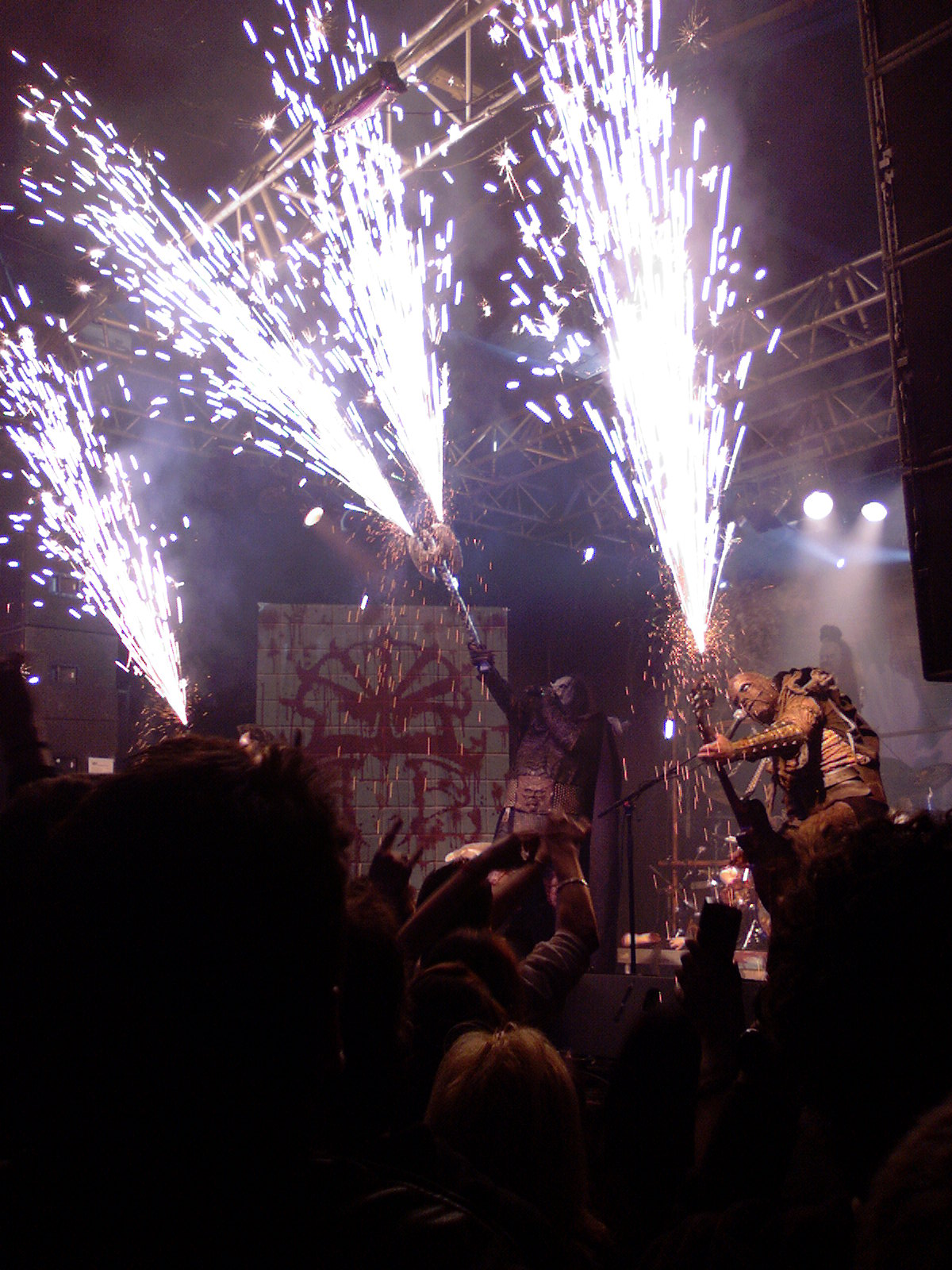 The hard rock group Lordi in concert in Toulouse.